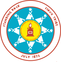 Standing Rock Indian Reservation logo